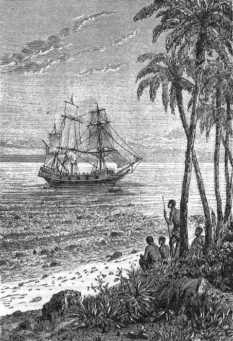 Illustration to Jules Verne's short story The Mutineers of the Bounty (Les Révoltés de la Bounty), 1879